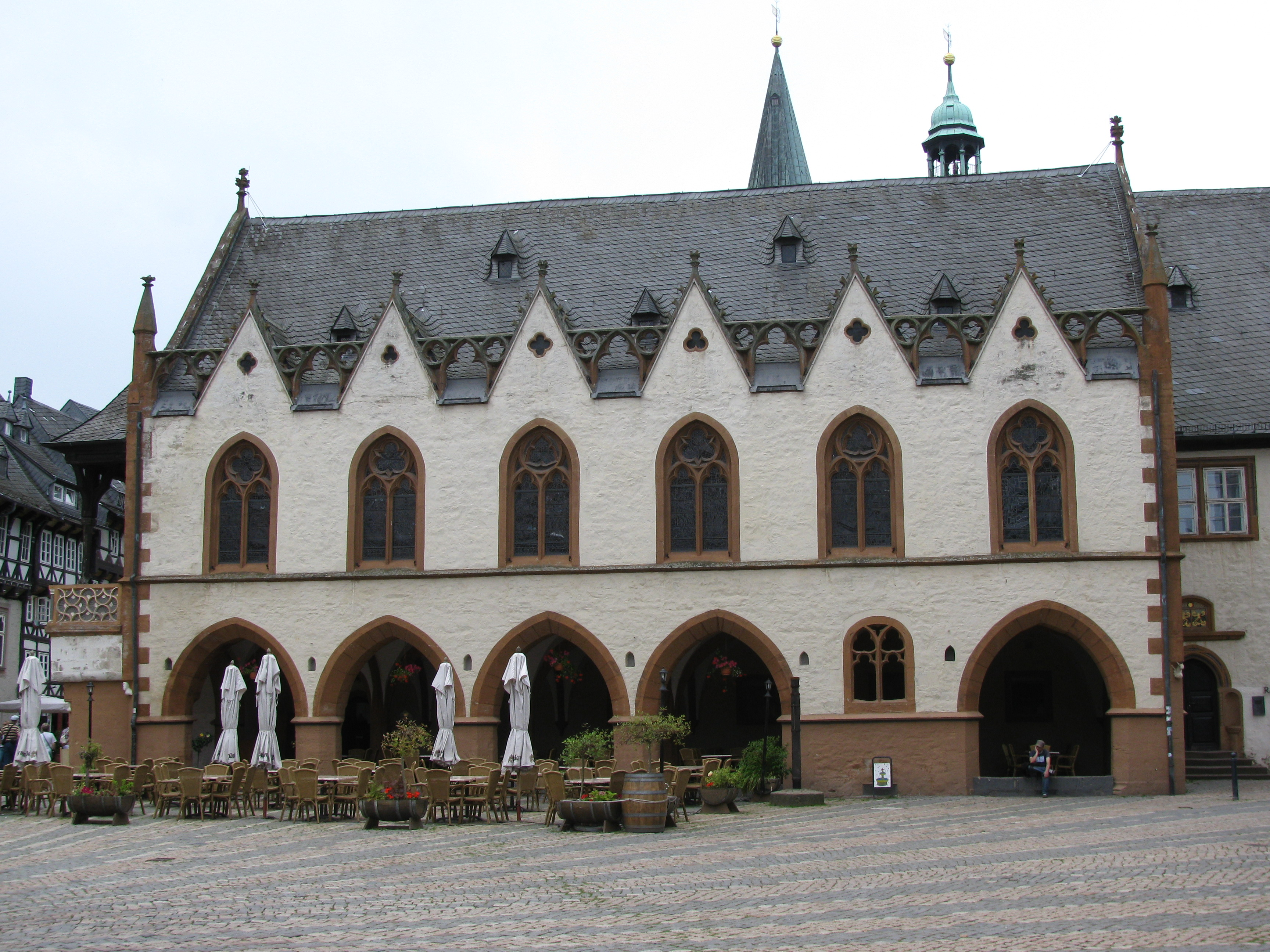 The town hall of Goslar in Lower Saxony, Germany, was build in the middle of the 15th century.